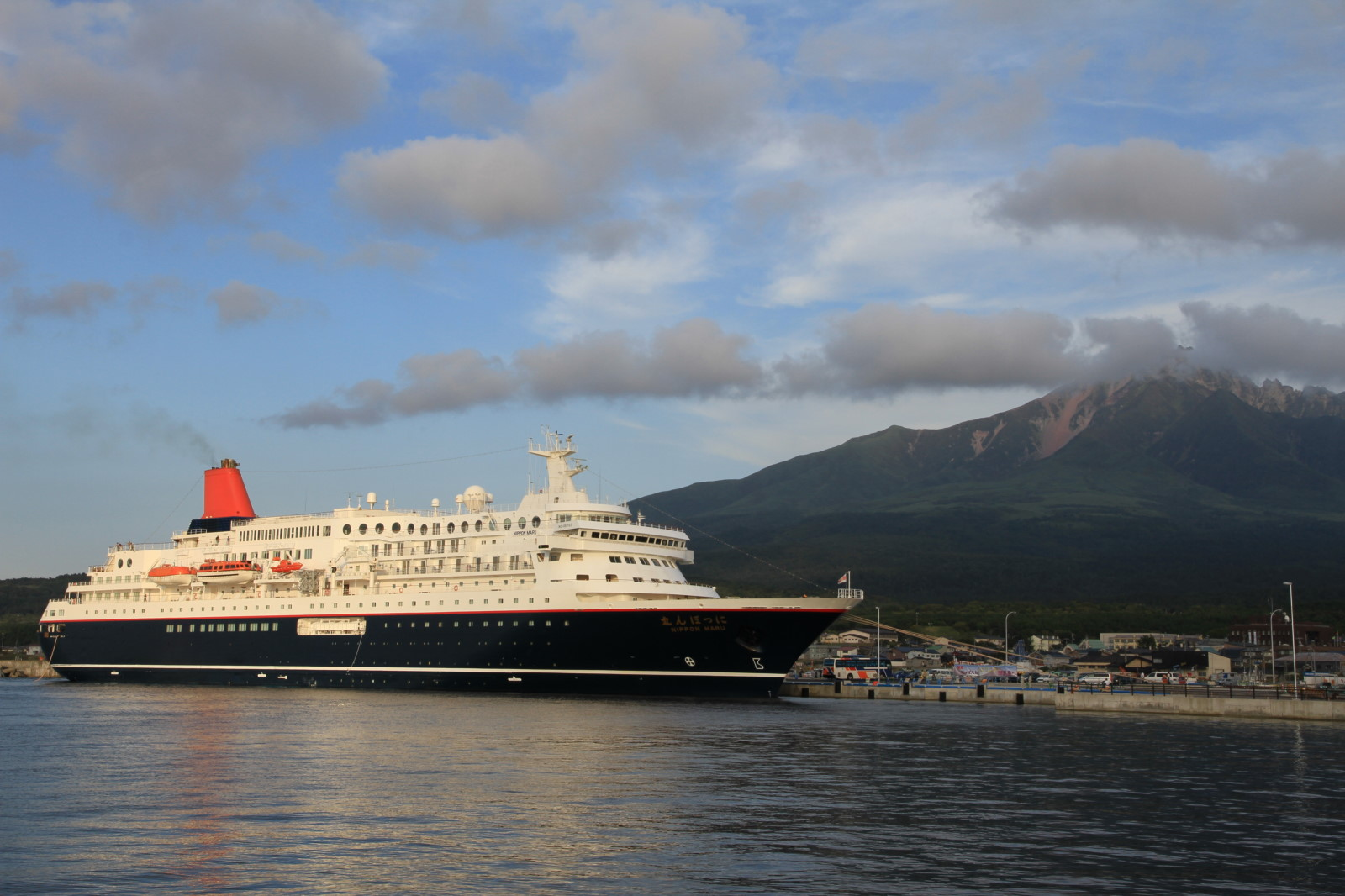 Nippon maru in Kutsugata port Rishiri town Hokkaido Japan